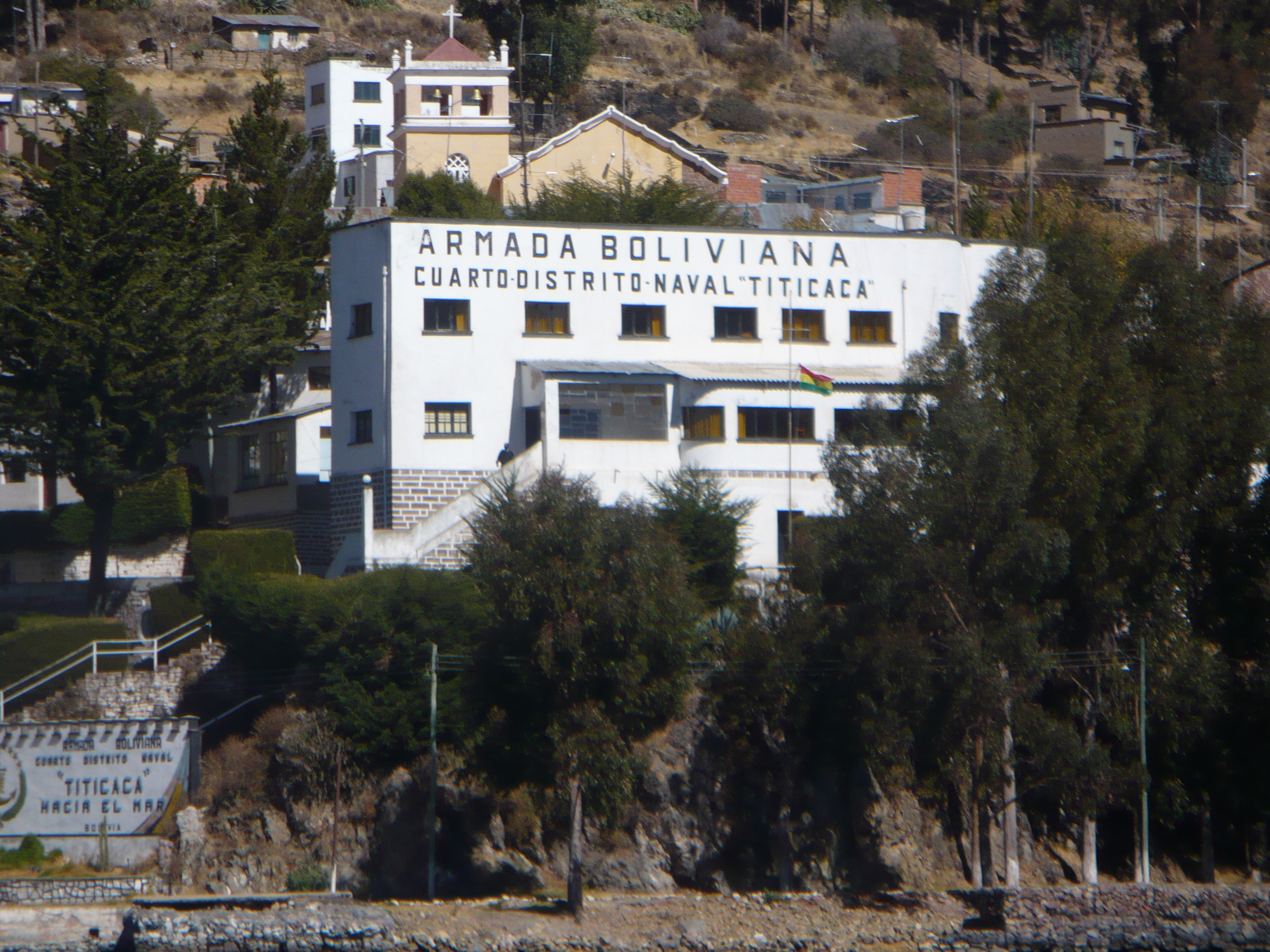 Bolivian naval force headquarters in Titicaca lake